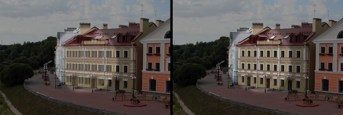 Example of the rangefinger window (crop) image: unfocused (left) and focused (right)